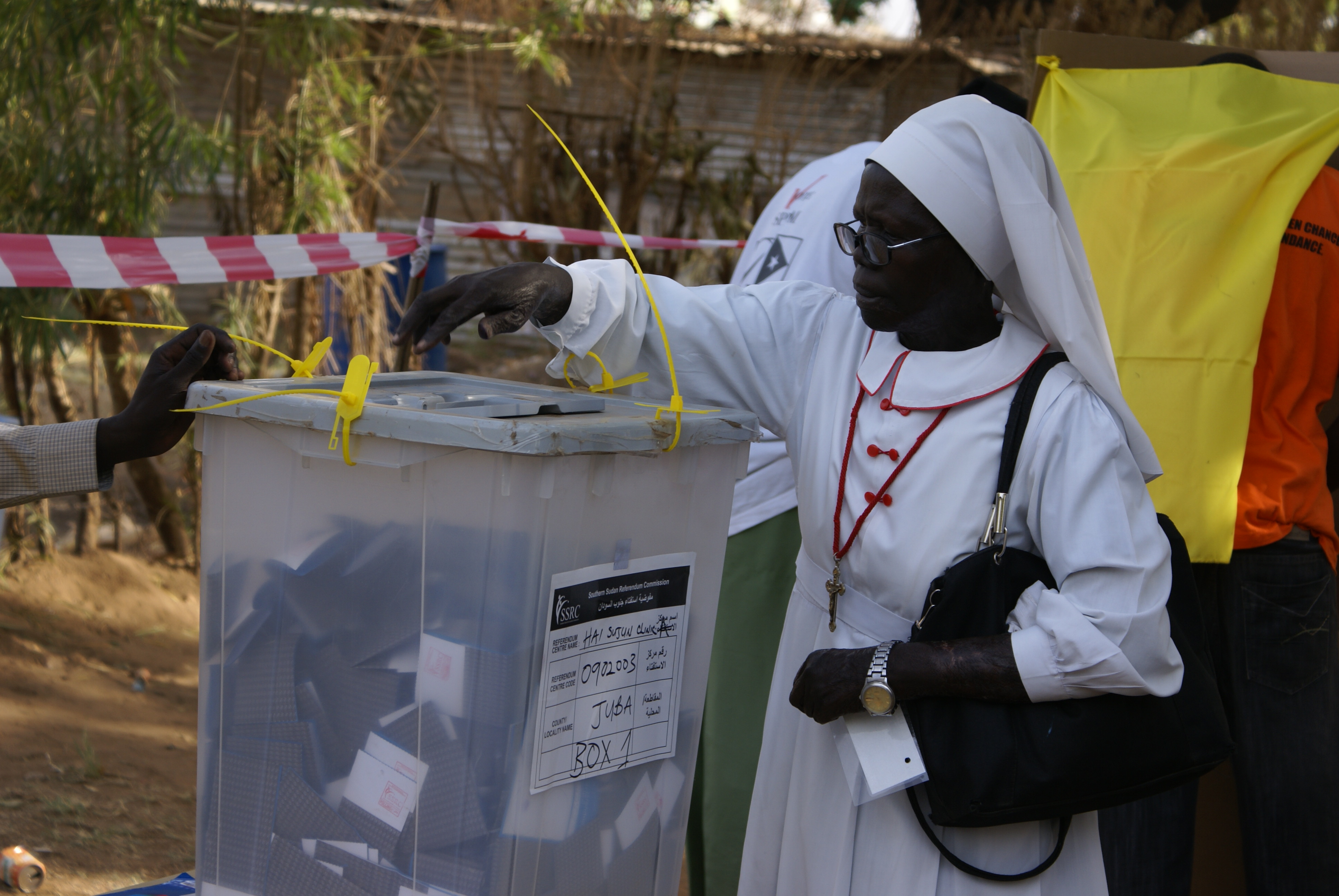 A woman throws here vote into the ballot box